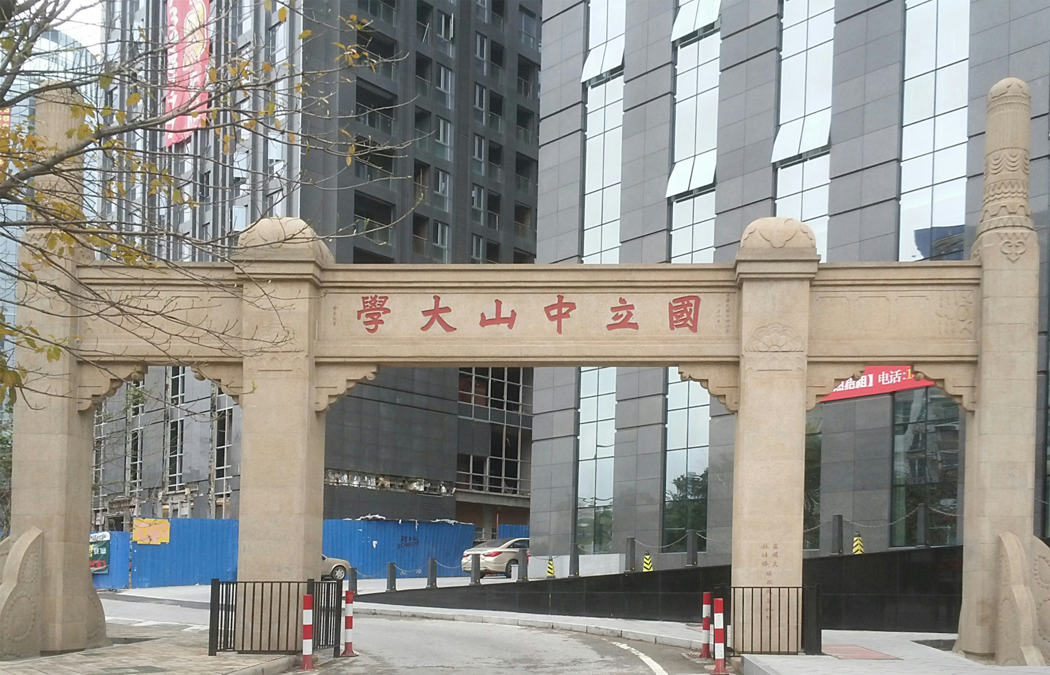 Sun Yat-sen University West Gate Front Fixed